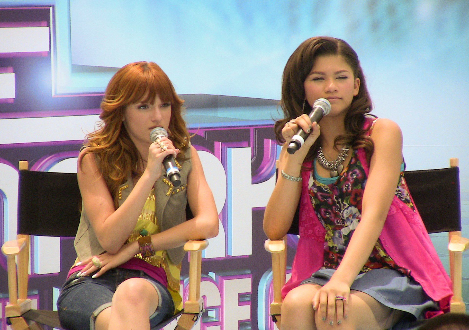 Bella Thorne and Zendaya at the "Make Your Mark: Ultimate Dance Off 'Shake It Up' edition